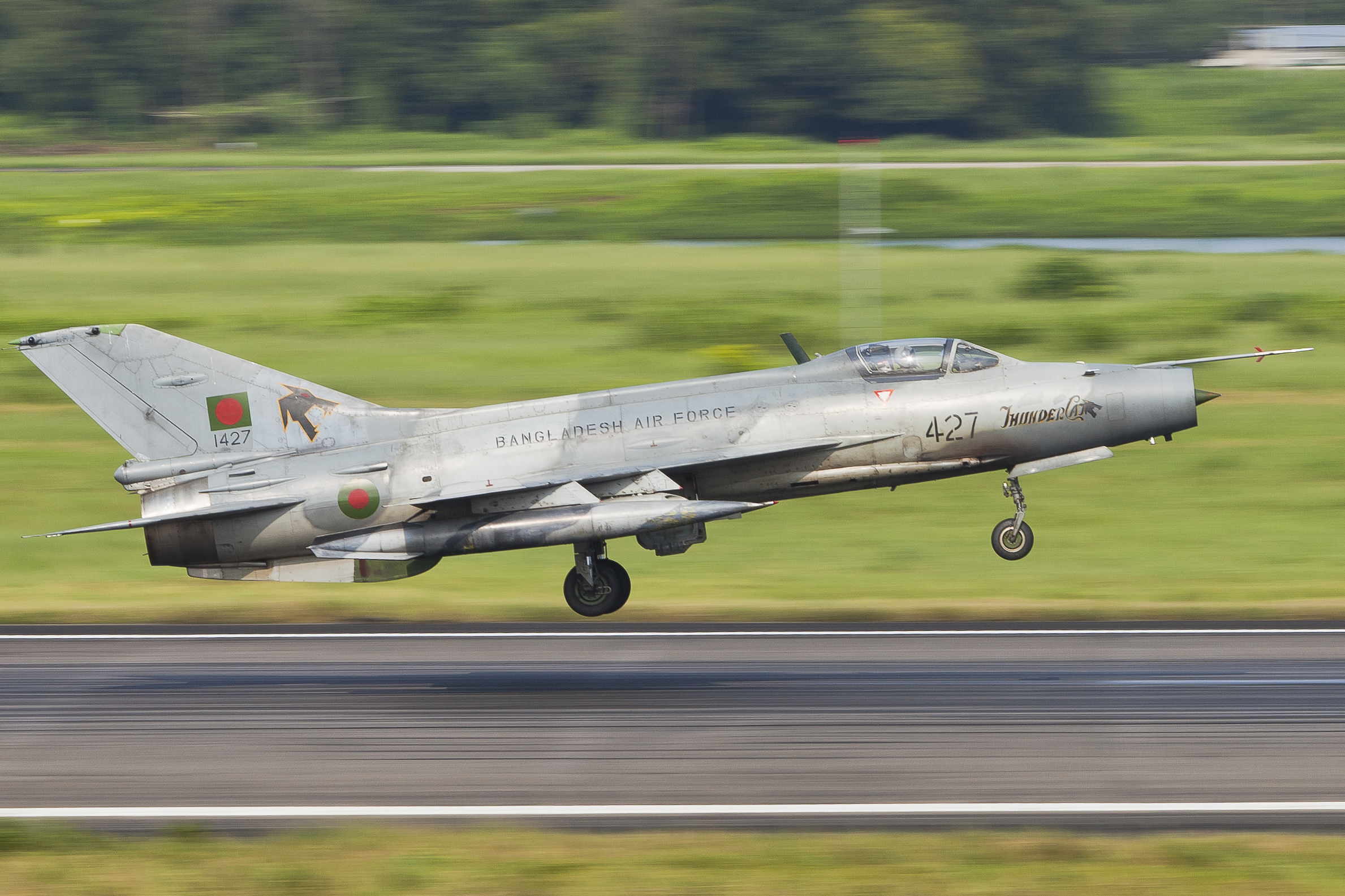 427 Bangladesh Air Force F-7 Air Guard 1 Second Before Landing at Runway 14 at Hazrat Shahjalal International Airport Dhaka - VGHS